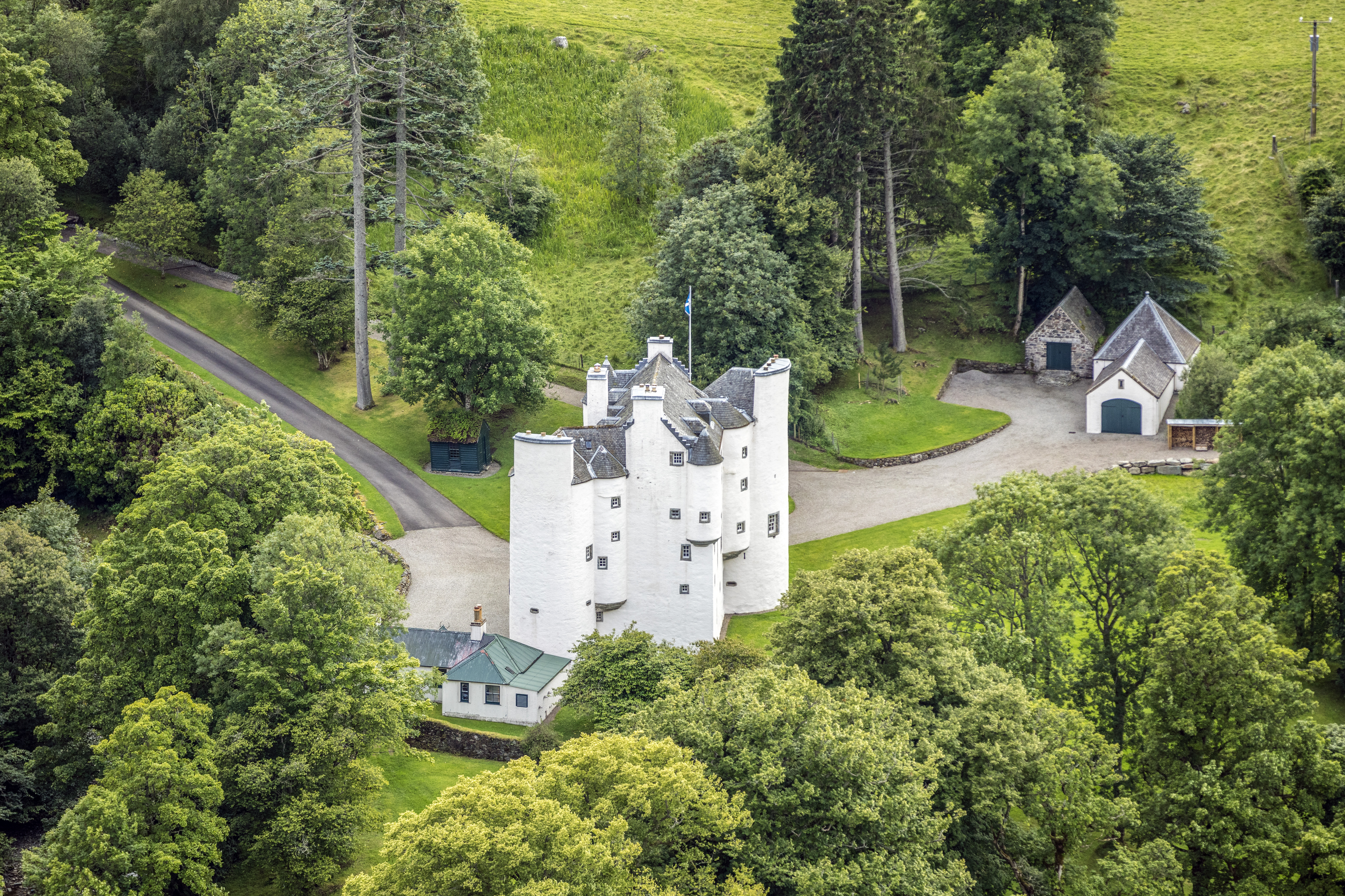 Aerial view of Edinample Castle on Loch Earn, Stirling council area, Scotland Wikidata has entry Q5338115 with data related to this item.